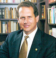 Lincoln Diaz-Balart, member of the United States House of Representatives.